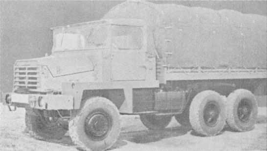 GBC-8KT 6x6 four-ton truck, front oblique view from the left side